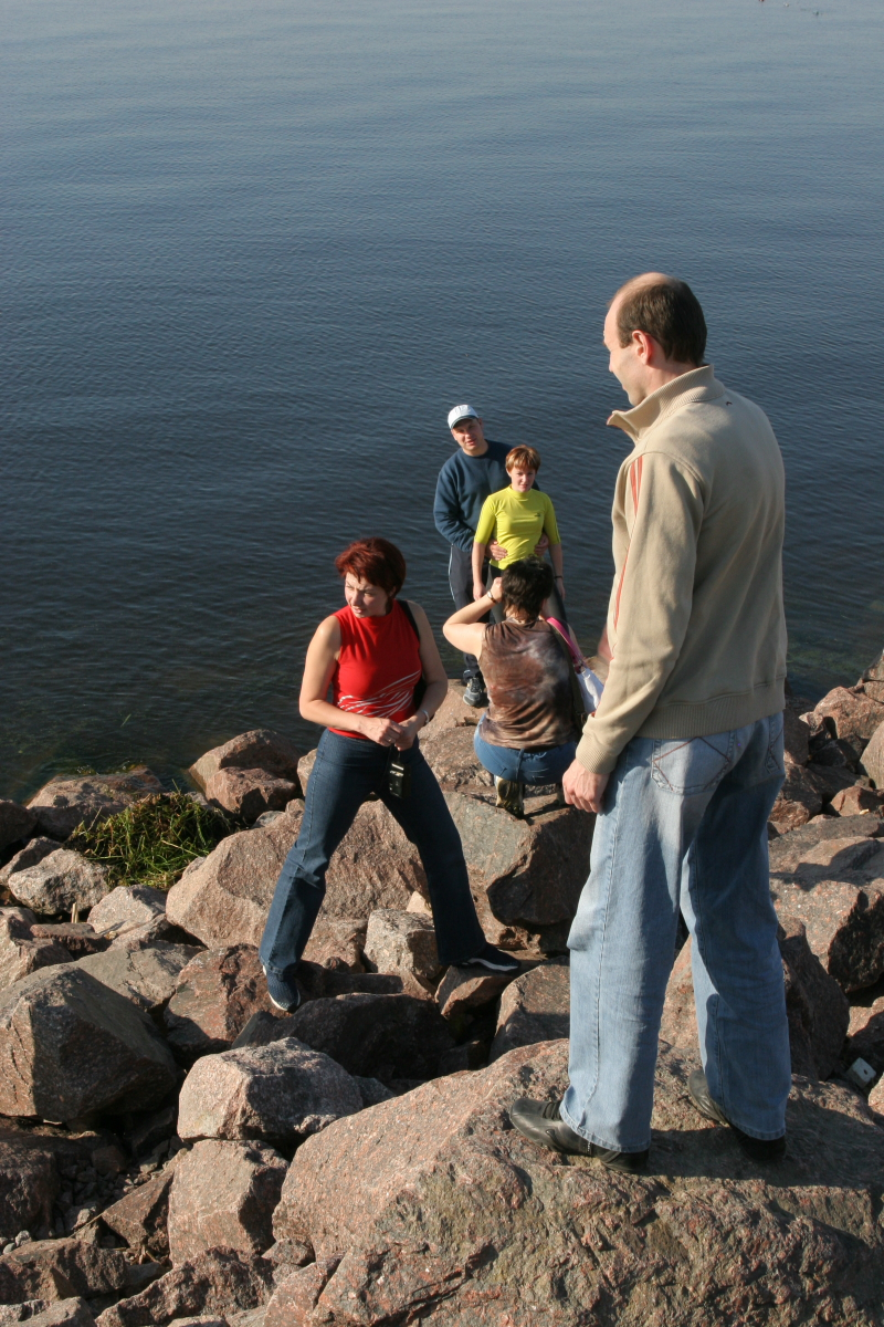 Photographers on the Gulf of Finland, near St. Petersburg, Russia